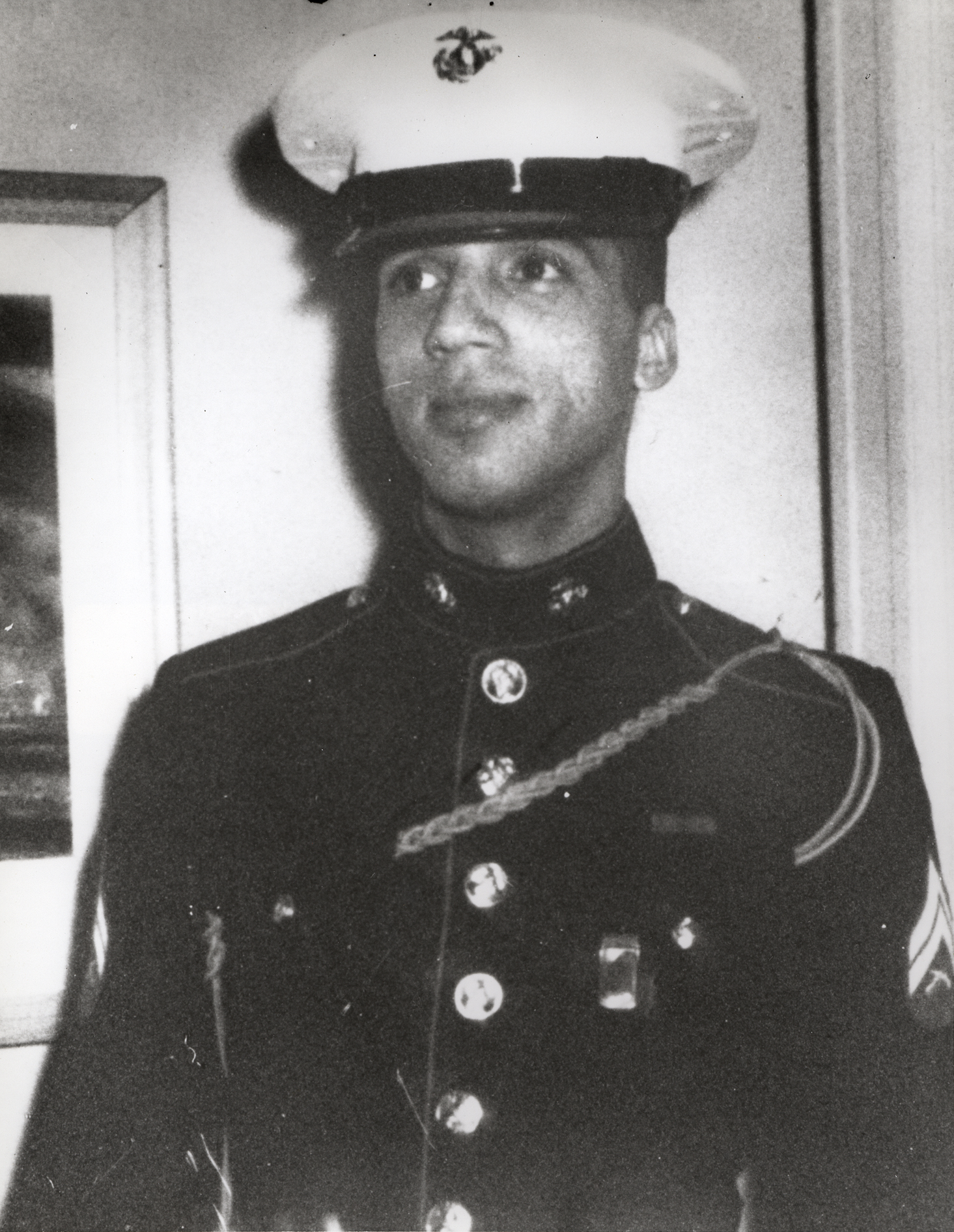 Sergeant Rodney M. Davis, USMC, Medal of Honor recipient